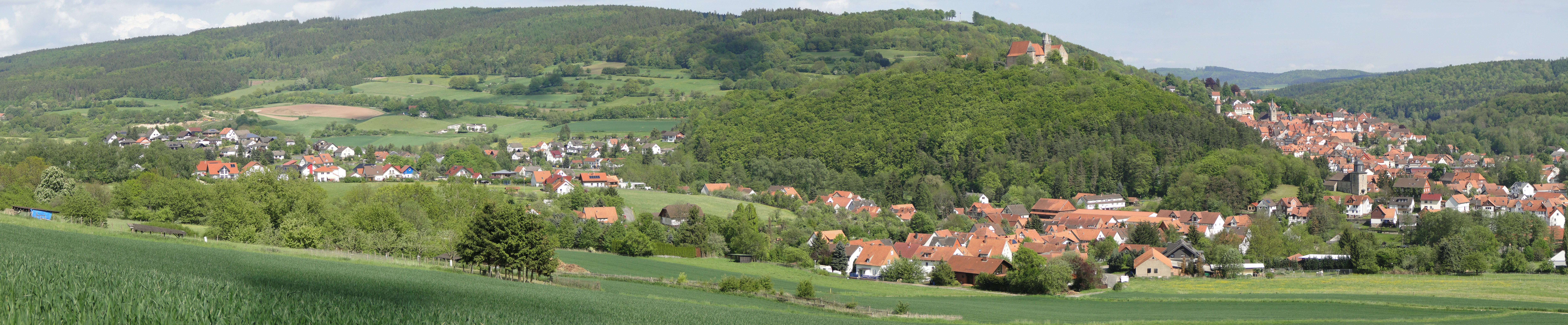 Panorama view of Elbersdorf, constituent community of Spangenberg, Hesse, Germany.